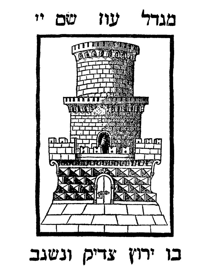 Printer's signet used by the Soncino family print-house, Italy, Thessaloniki and Constantinopol, 16th century סמל בית הדפוס של משפחת שונצינו, איטליה , סלוניקי וקונסטנטינופול, המאה ה-16